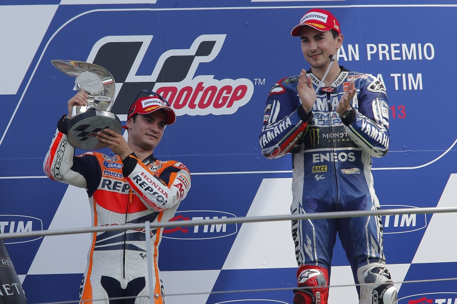 Dani Pedrosa (lifting his trophy) and Jorge Lorenzo, celebrating on the podium after finishing in second and first place at the 2013 Italian Grand Prix